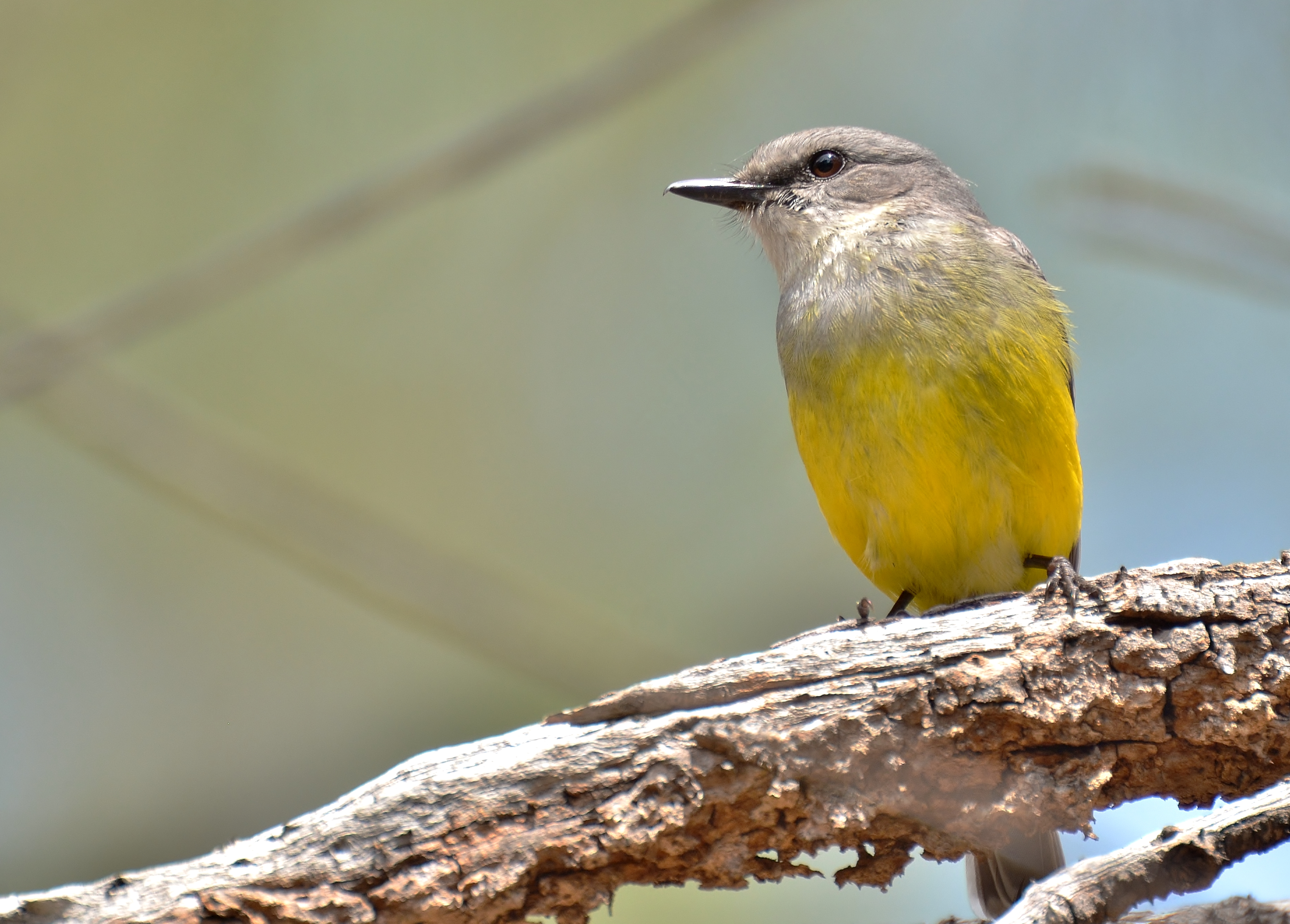 Western Yellow Robin from front, showing belly and throat.